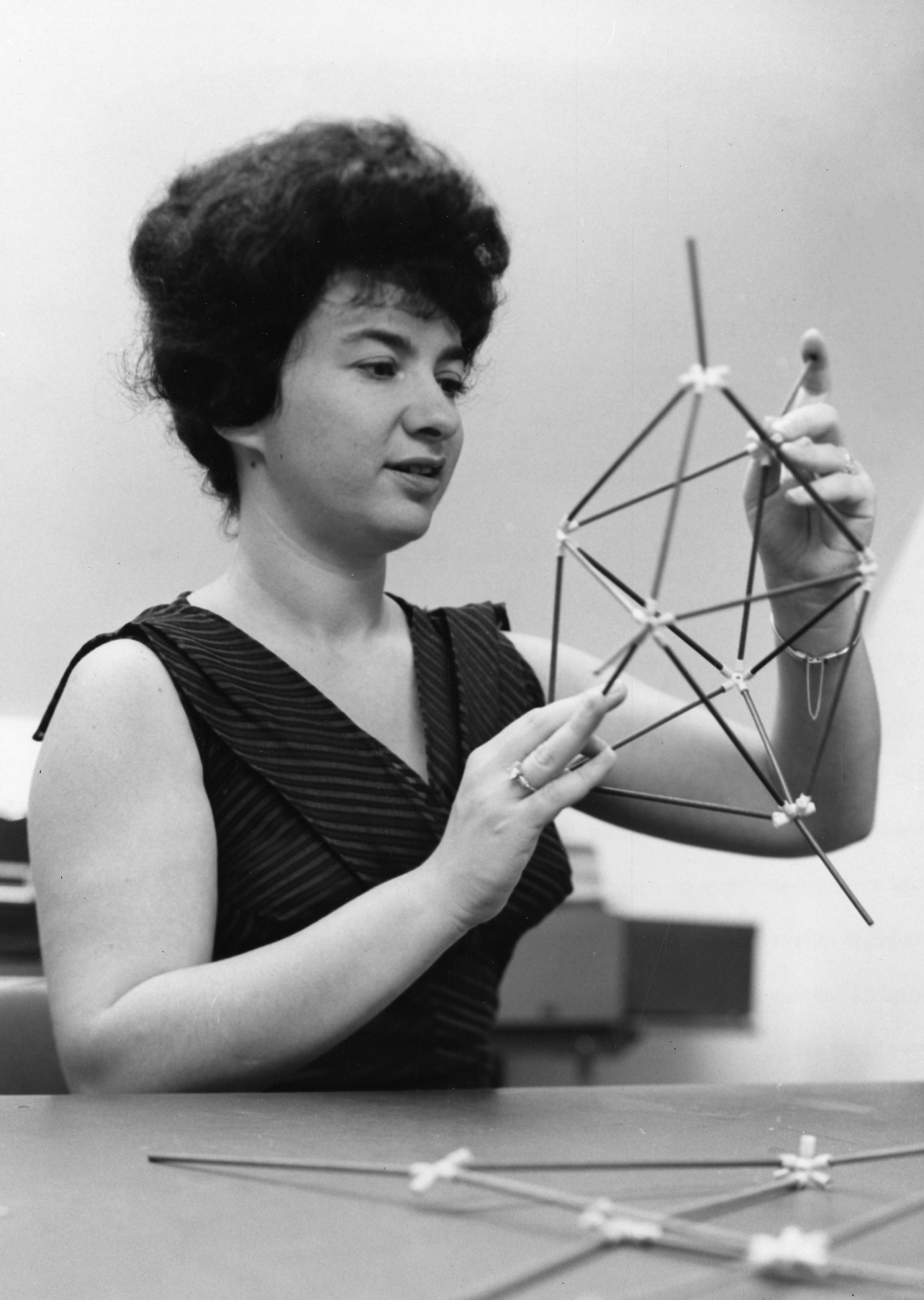 Kaufman, Joyce Jacobson (born 1929), Martin Marietta Corporation, Research Institute for Advanced Study (Baltimore, Md.), Johns Hopkins University Local number: SIA Acc. 90-105 [SIA-SIA2008-4572] Summary: American chemist Joyce Jacobson Kaufman (b. 1929), shown holding a molecular model, was working at the Martin Marietta Company's Research Institute for Advanced Studies, Baltimore, Maryland, when this photograph was taken, July 1964. A few years later, she returned to Johns Hopkins University as a research scientist and associate professor of anesthesiology, and elected a fellow by the American Institute of Chemists and American Physical Society. She is noted for carrying out the first all-valence-electron, three-dimensional quantum-chemical calculations, and for research on the clinical effects of tranquilizers and narcotic drugs. Cite as: Acc. 90-105 - Science Service, Records, 1920s-1970s, Smithsonian Institution Archives Persistent URL: [1]